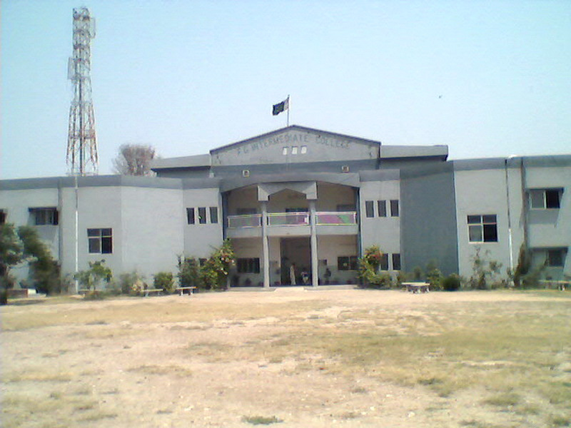 FG Inter College Jhelum Cantt.